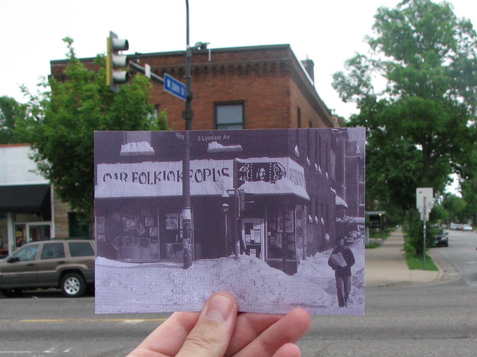 Treehouse Records (formerly Oar Folkjokeopus, as seen in the superimposed 1980s black and white photo). Lyndale Avenue South at West 26th Street, Minneapolis, Minnesota, USA. Original description: This is another one that with more time and practice, I think could be really good.